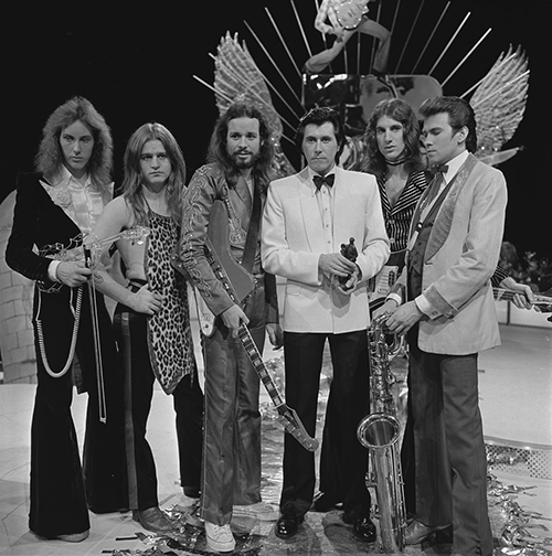 Roxy Music in AVRO's TopPop (Dutch television show) in 1973